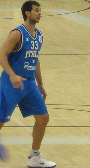 Marco Carraretto in 2010